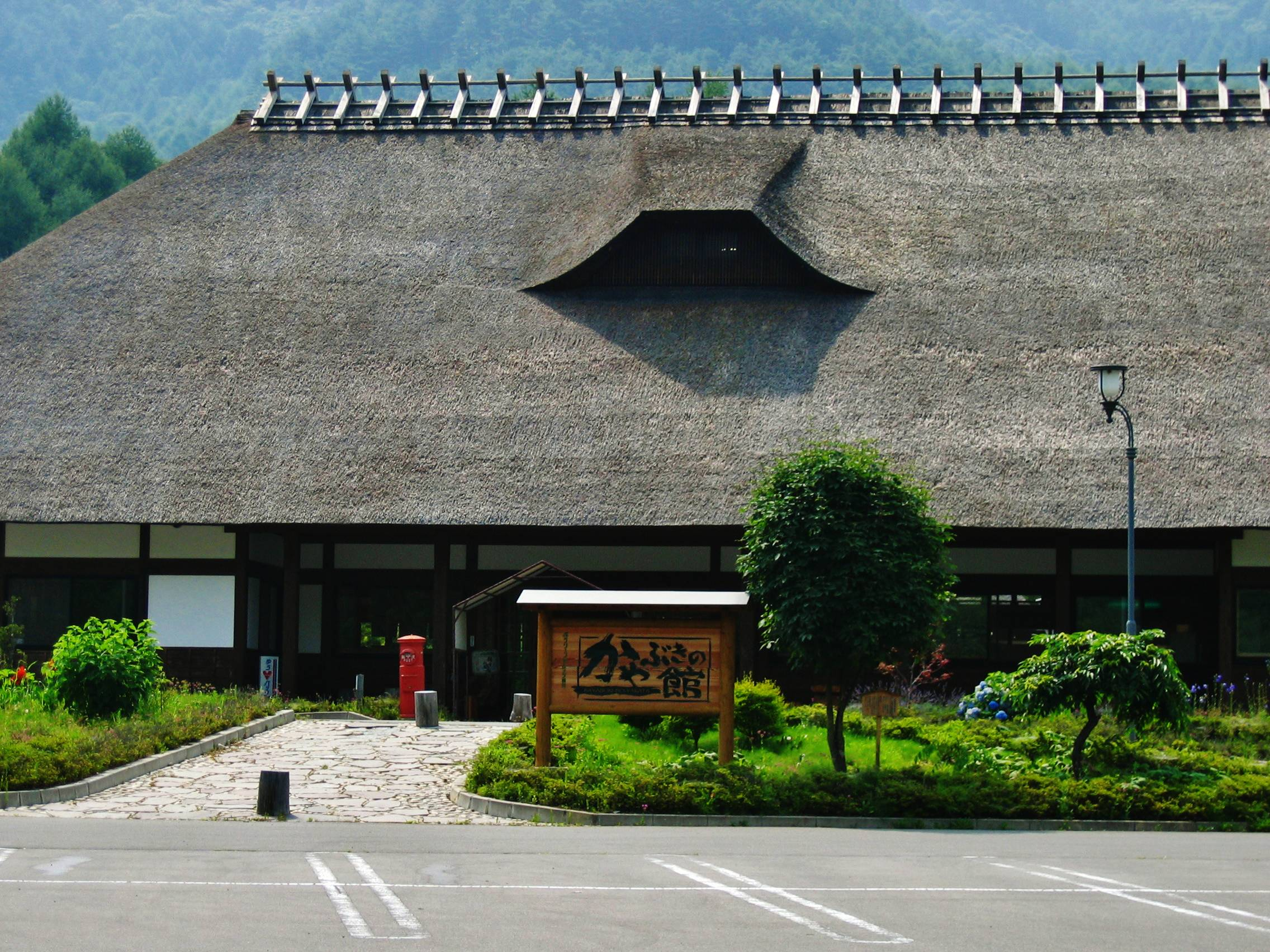 Green Village Yokokawa Kayabuki no Yakata (Tatsuno, Nagano).